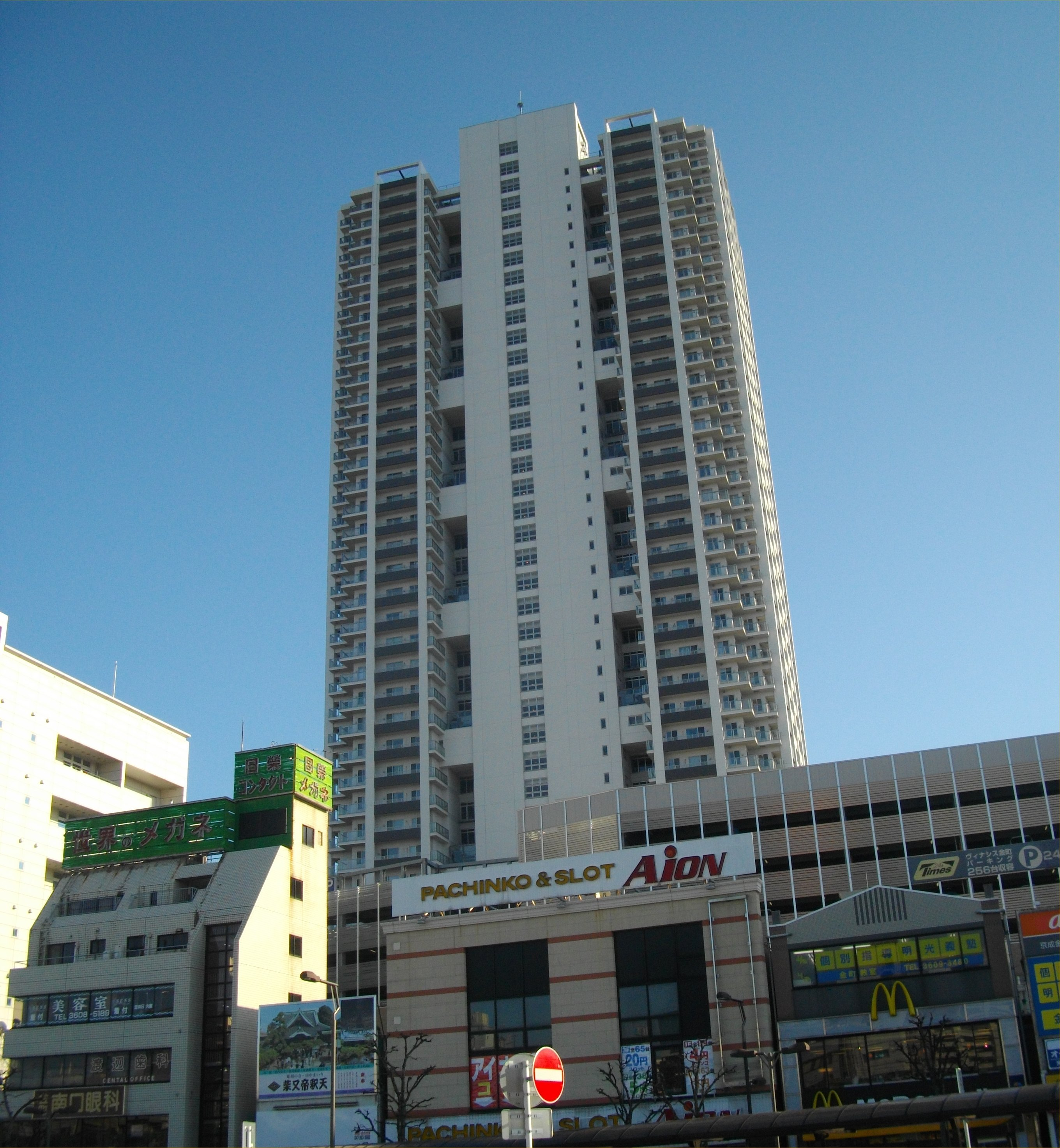 A photo of an overview of "VENASIS Kanamachi"(a high-rise condominium in Tokyo.)Kanamachi,Katsushika-ku,Tokyo,Japan.